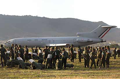 Mexican Army amassing at the airport near Oaxaca.